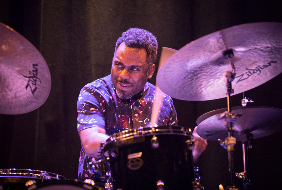 John Patitucci Electric Guitar Quartet at the stage of Cosmopolite. The concert took place on 12. May 2017 in Oslo. Lineup: John Patitucci (bass guitar) Adam Rogers (guitar) Steve Cardenas (guitar) Nate Smith (drums)